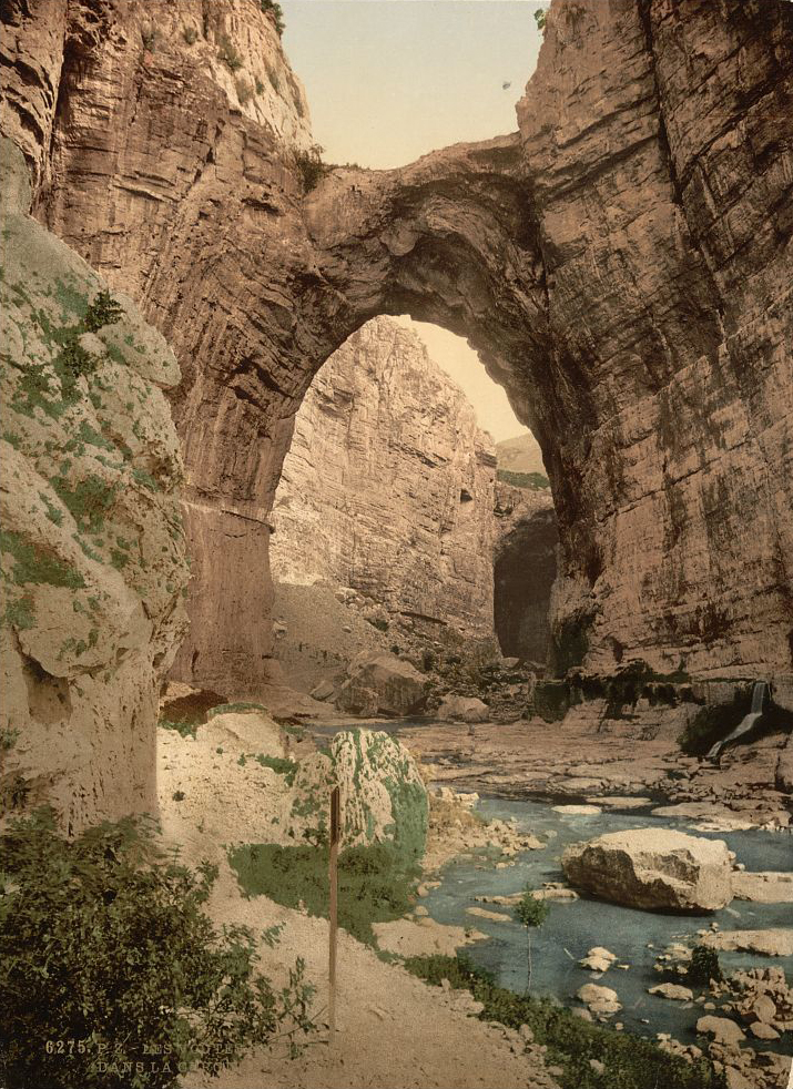 The natural arch, Constantine, Algeria